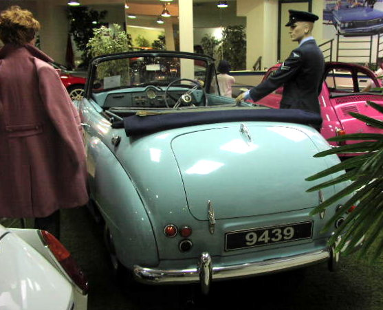 Austin A40 Somerset Convertible (1952)